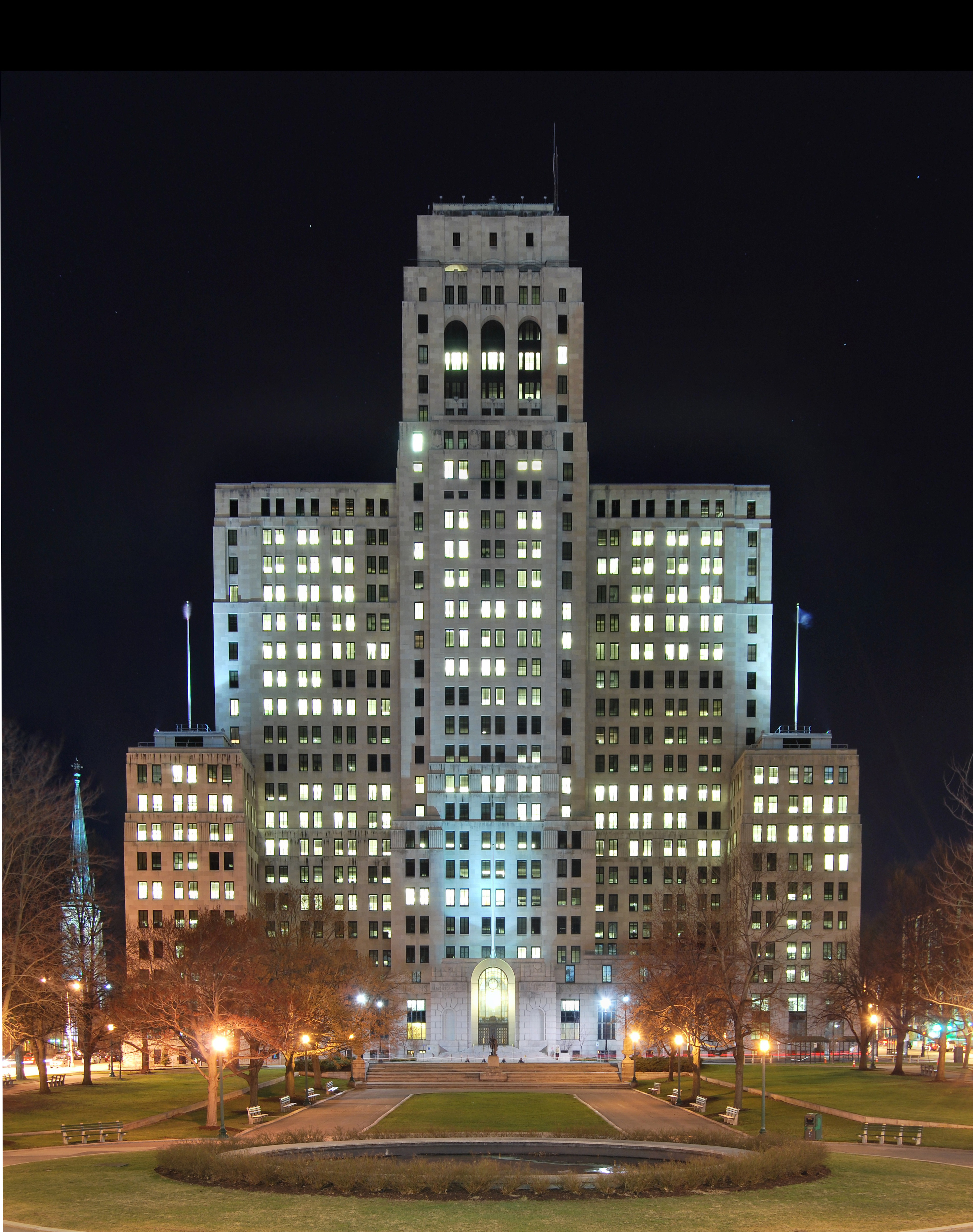 Alfred E. Smith Building at night